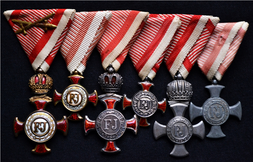 Variants of the Austrian Merit Cross (VK) as awarded during the First World War with the striped "War Ribbon": Golden VK with Crown, Golden VK, Silver VK with Crown, Silver VK (all four established 1850), Iron VK with Crown, Iron VK (both established 1916).